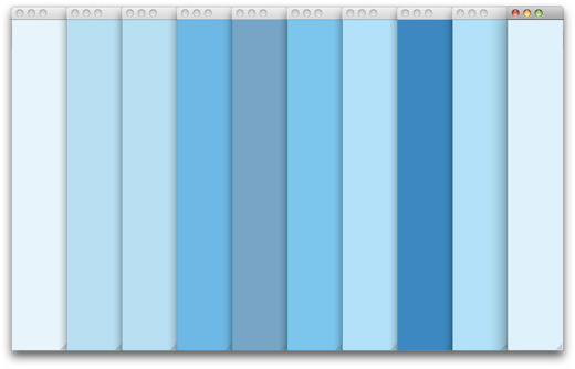 Screenshot of a new media artwork by Michael Demers.